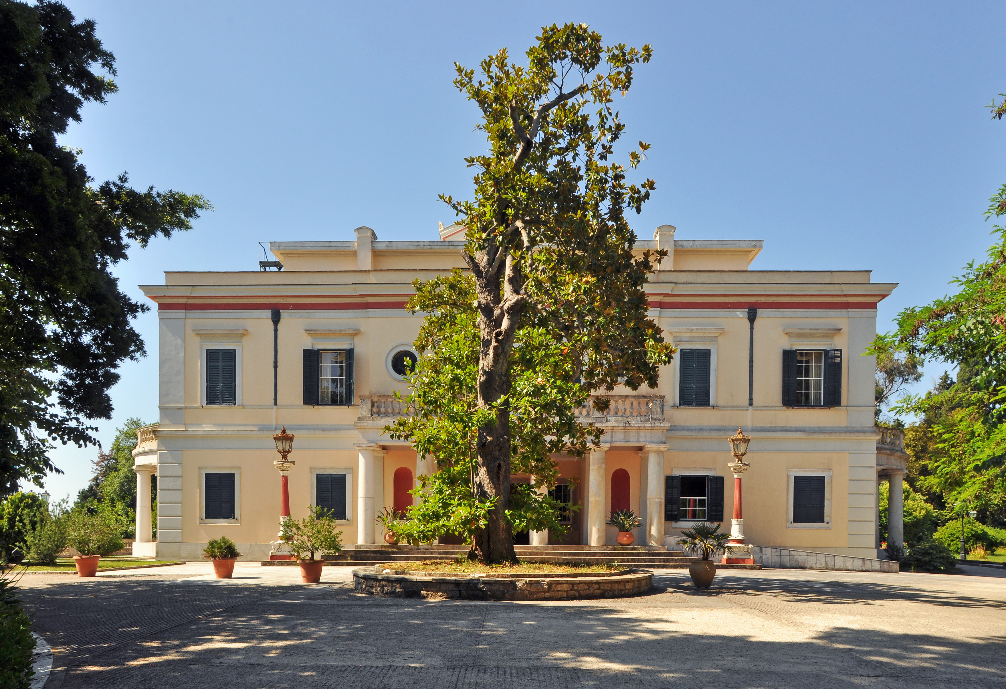 Corfu (Greece): former royal villa 'Mon Repos'